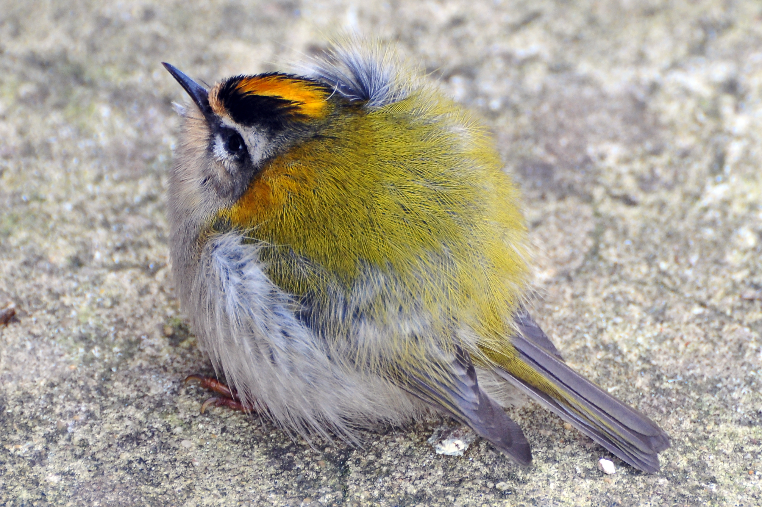 Firecrest (Regulus ignicapilla) at Arundel WWT reserve, West Sussex, England.